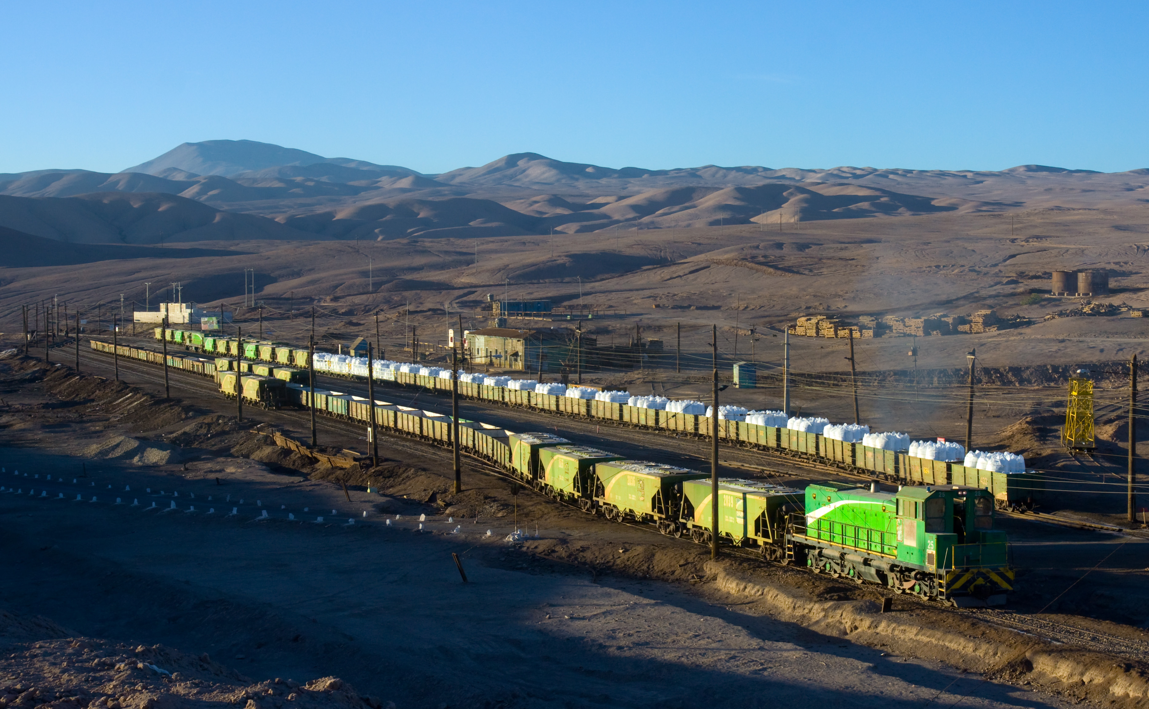 An EMD SW1200 is leaving Barriles towards Maria Elena with an empty Nitrates train, only moments after the GE U20C with its loaded train (background) has cleared the switch. Just two minutes earlier, two GE Boxcab eletrics have left the station towards Tocopilla, Chile (to the left).